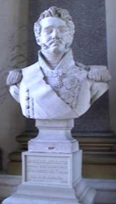 Joseph-Anthony, prince Poniatowski, battles gallery, Versailles castle, France